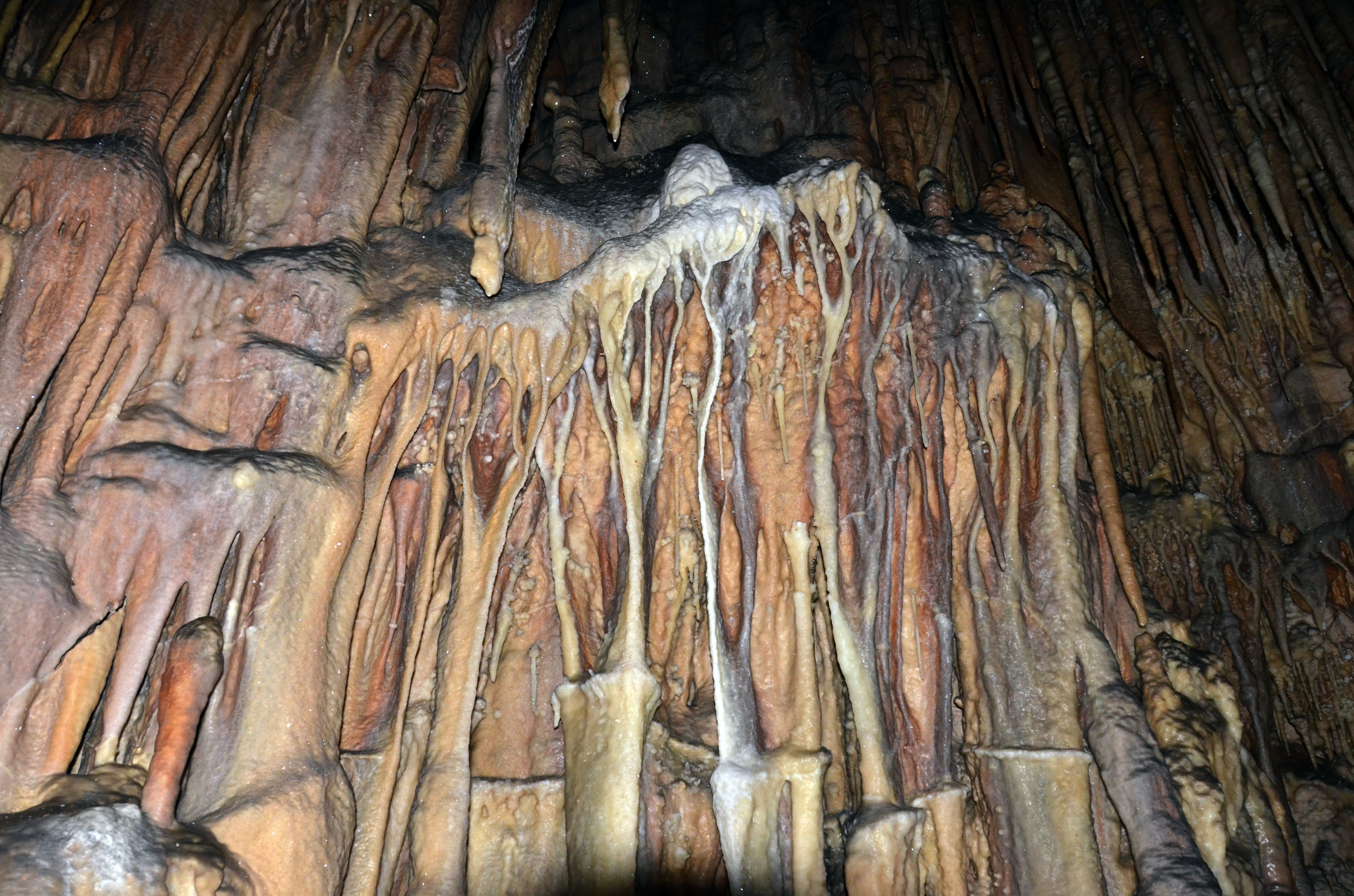 Grotta Monello - Siracusa